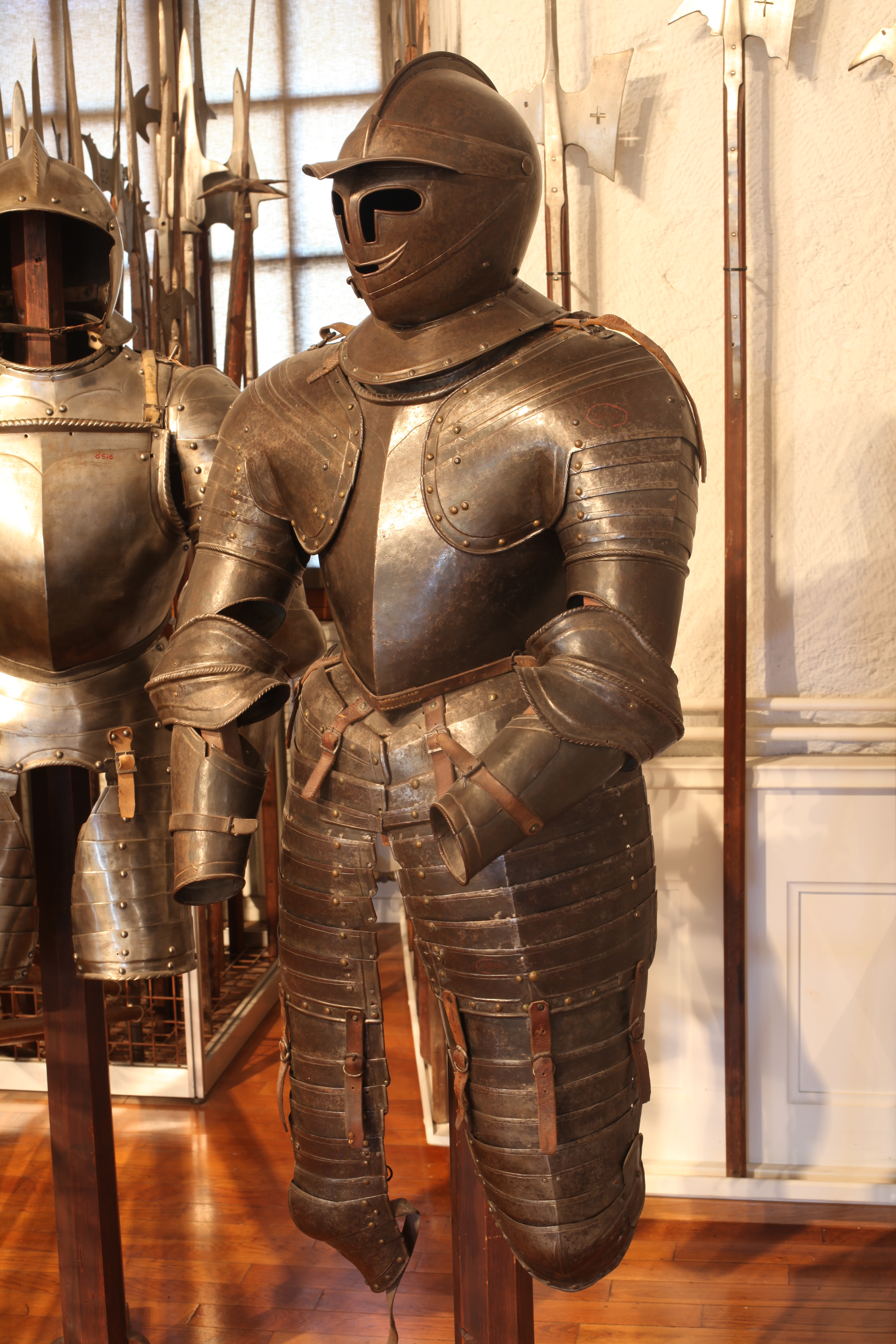 Cuirassier's armour in Savoyard style, ca. 1600-1610. On display at Morges military museum